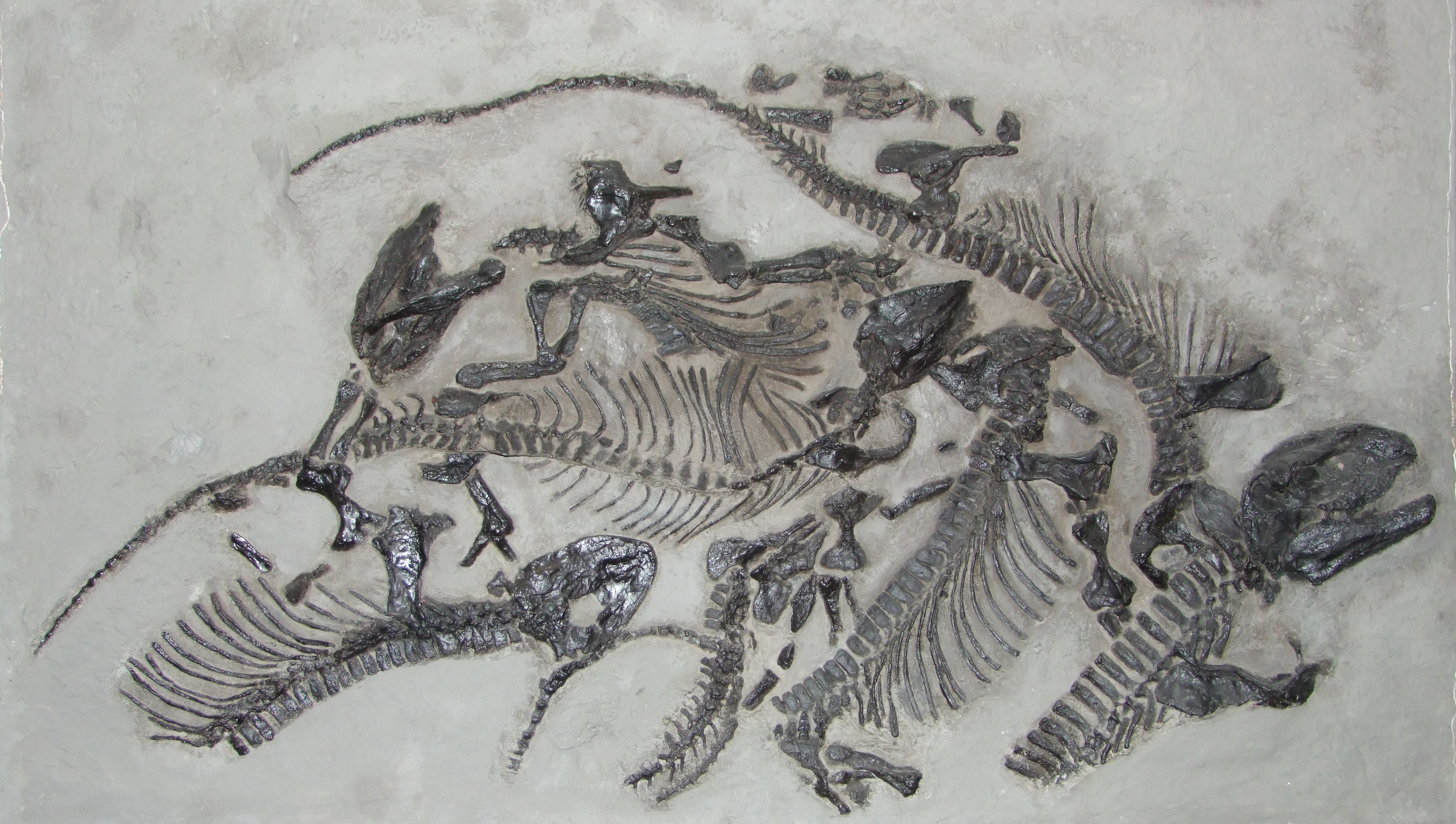 Gypsum mold of six individuals of Pantelosaurus saxonicus from Königin Carola pit in Freital, Saxony, Germany. Martin Luther University of Halle-Wittenberg, Saxiony-Anhalt, Germany. The original "Saxon saurus plate" belongs to the Sächsische Landesamt für Umwelt, Landwirtschaft und Geologie (State Agency for Environment, Agriculture and Geology) in Dresden, Saxony.